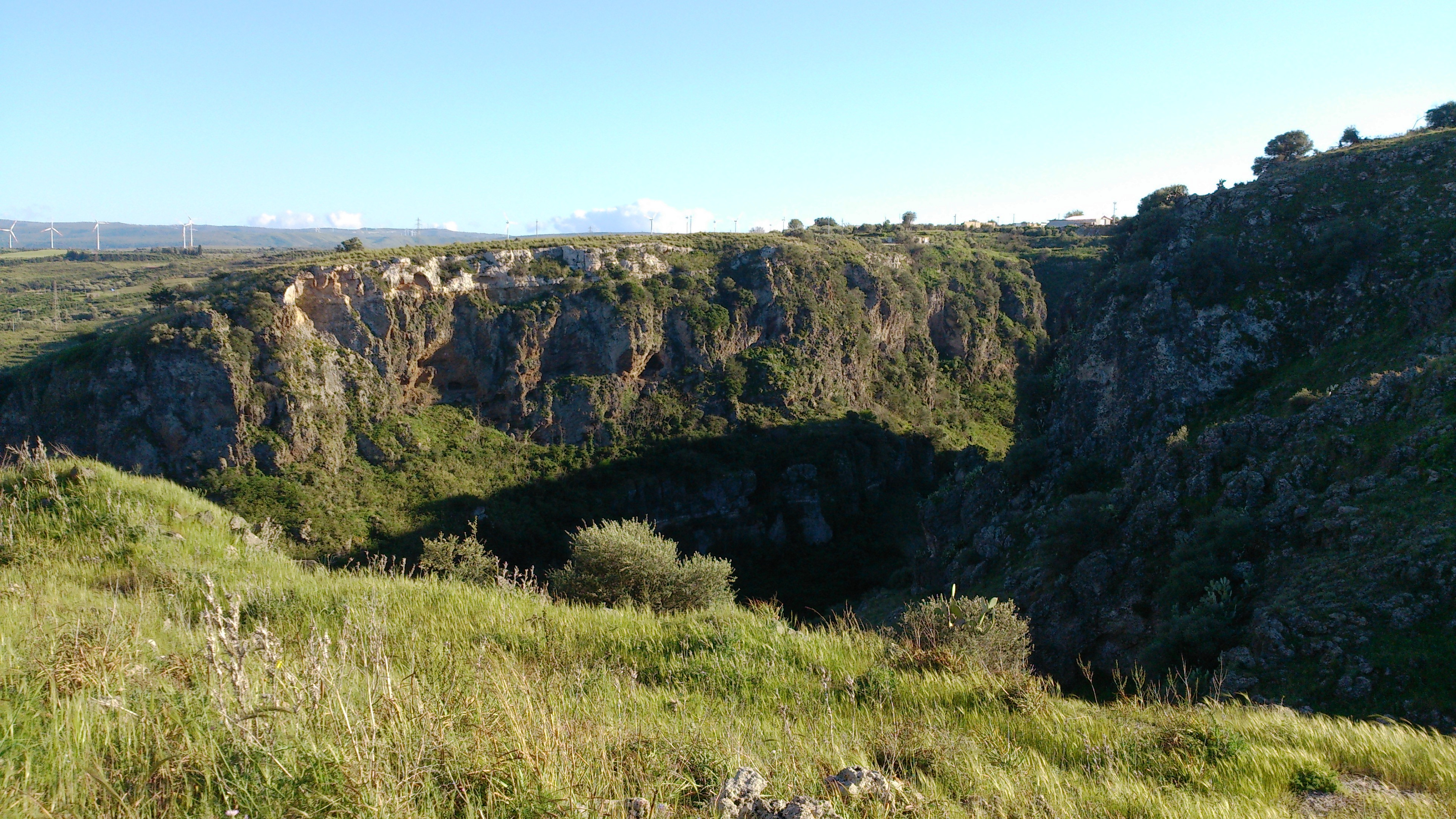 Militello gorges of Carcarone